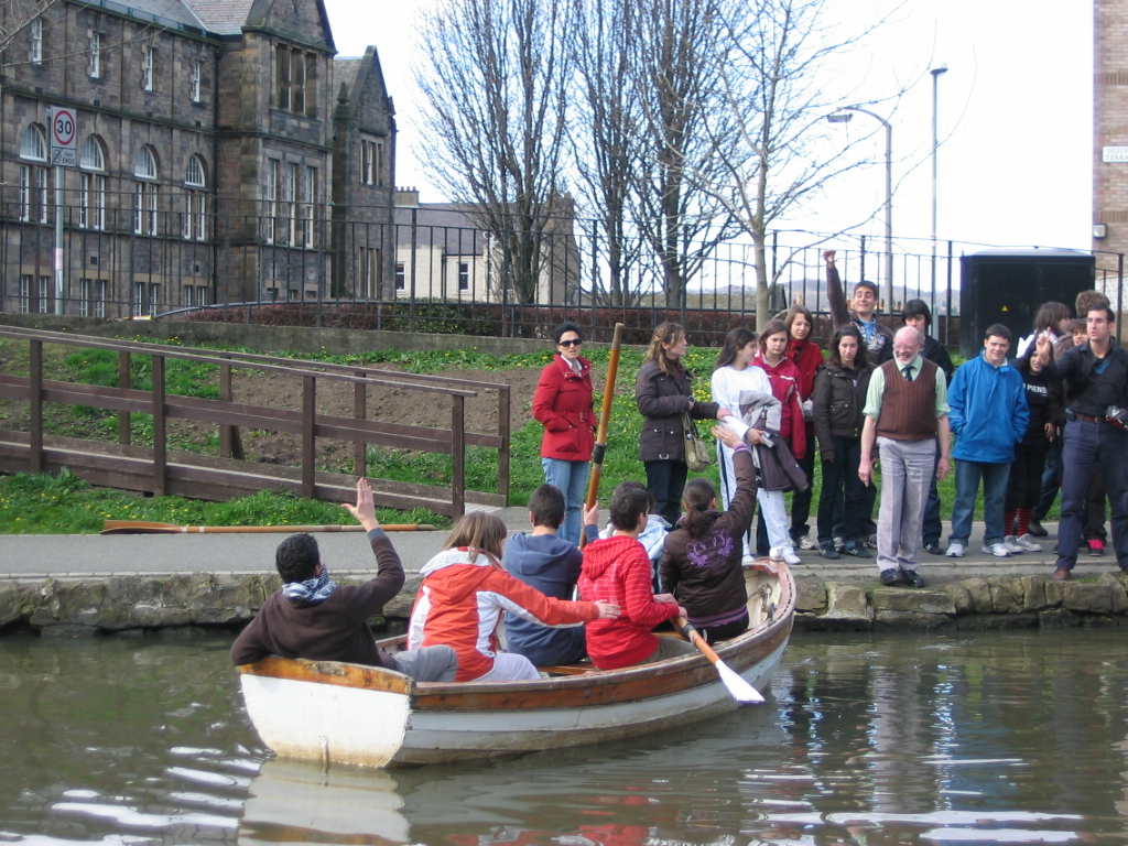 Students chartering rowboats, Edinburgh Canal Society, Union Canal, Scotland